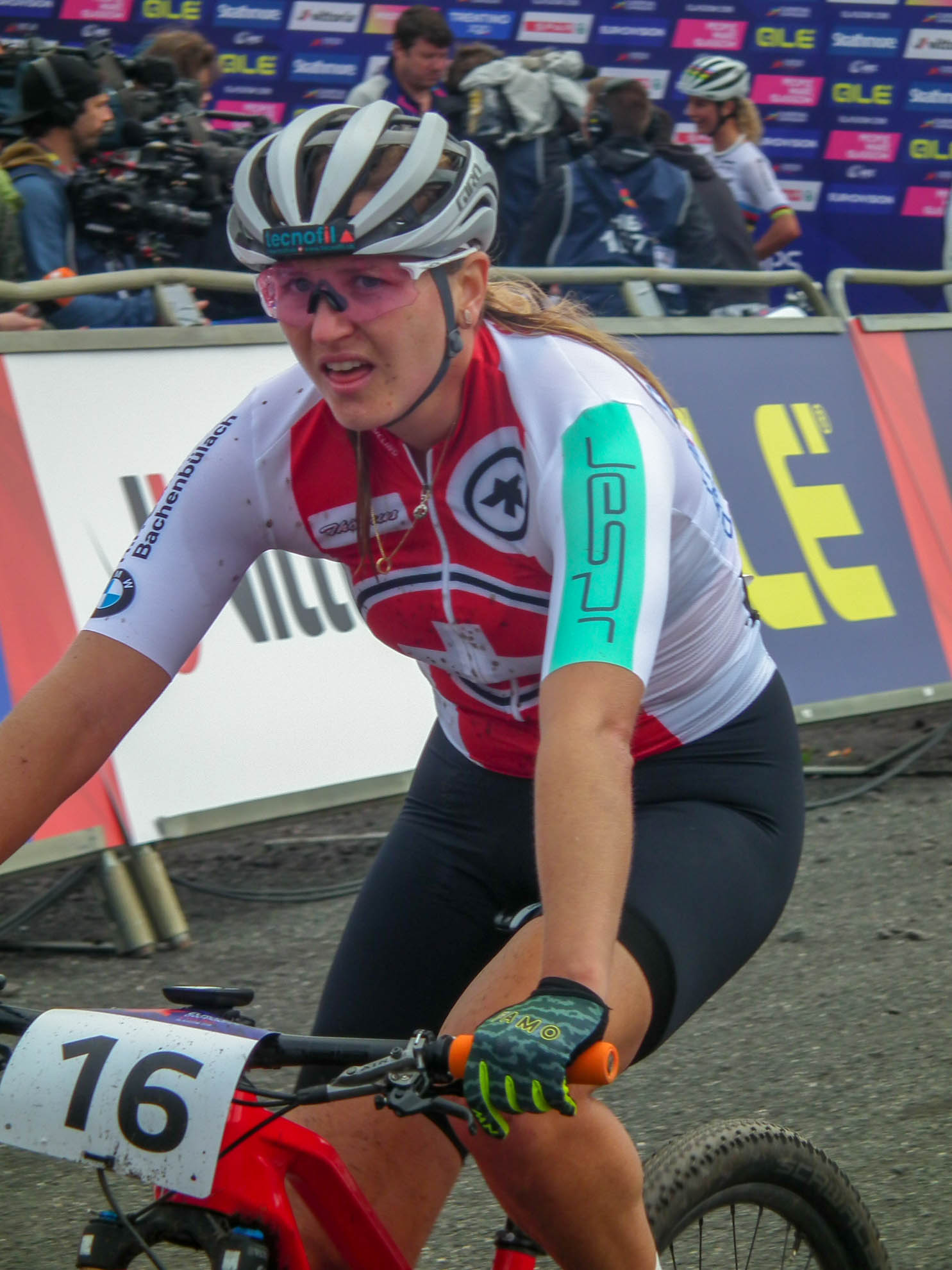 2018 European Mountain Bike Championships